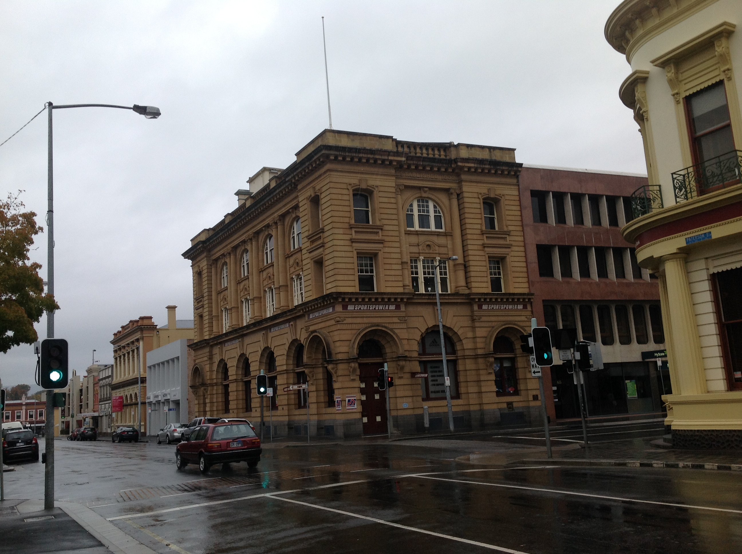 Paterson Street, Launceston in rainy weather